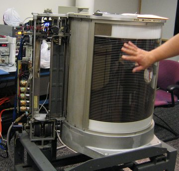 IBM 350 RAMAC, capacity 5Mb, that is being restored by volunteers in the Computer History Museum in Mountain View, CA. source: Silicon Valley Sleuth blog